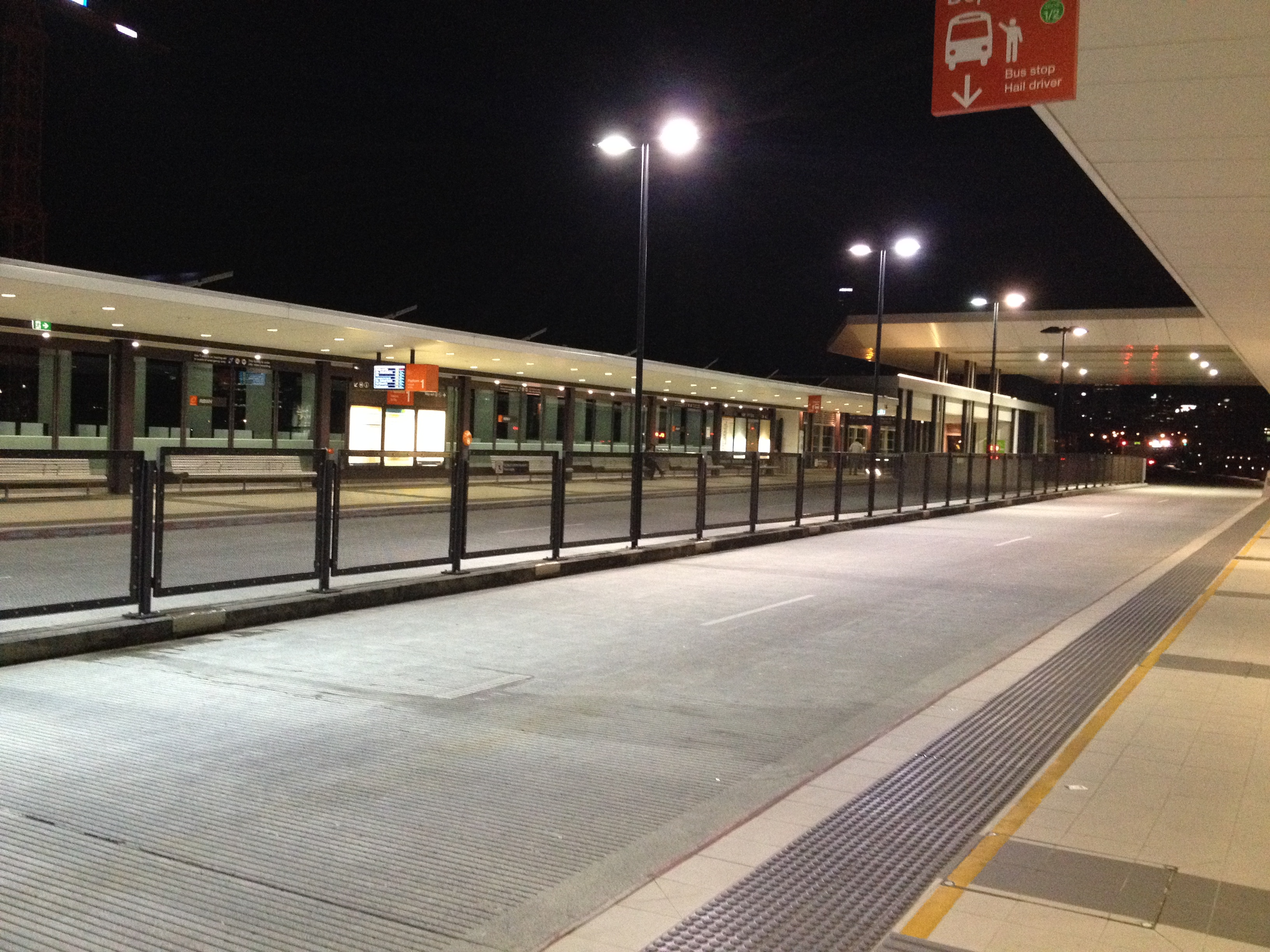 RBWH busway station roadway facing south towards Brisbane CBD.